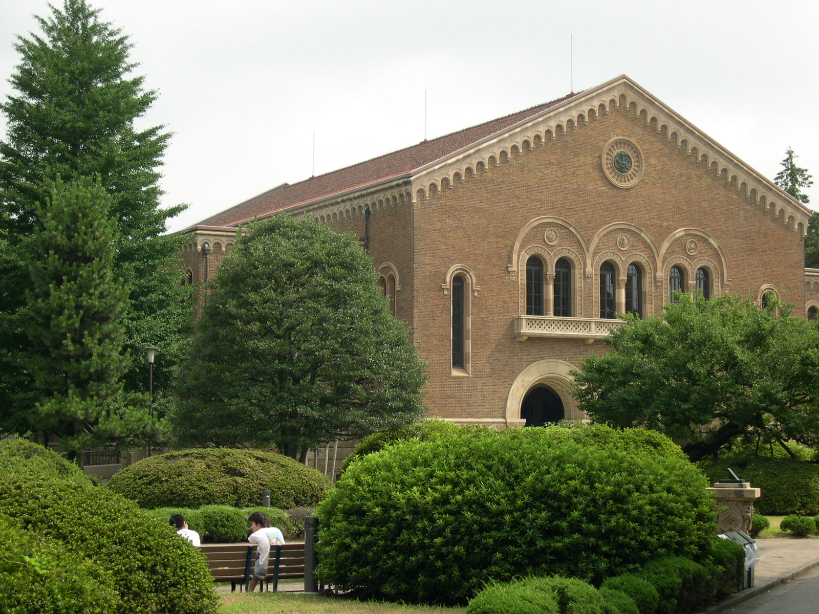 Kanematsu auditorium of Hitotsubashi university (Kunitachi campus)